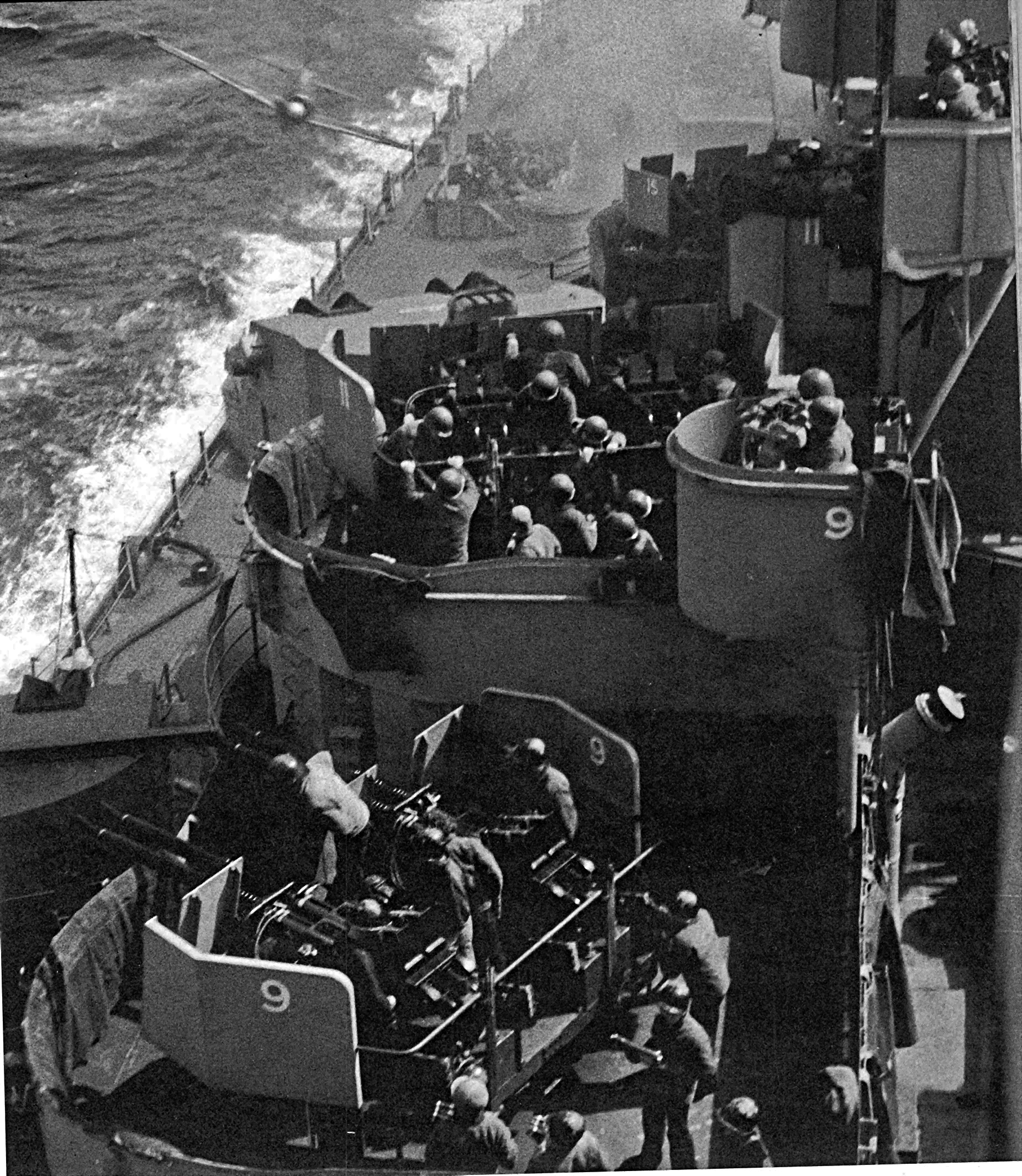 Kamikaze attack on the USS Missouri (BB-63). About to be hit by a Japanese A6M "Zero" kamikaze, while operating off Okinawa on 11 April 1945. The plane hit the ship's side below the main deck, causing minor damage and no casualties on board the battleship. A 40 mm quad gun mount's crew is in action in the lower foreground. The kamikaze on the photo has been identified as either Flight Petty Officer 2nd Class Setsuo Ishino or Flight Petty Officer 2nd Class Kenkichi Ishii.